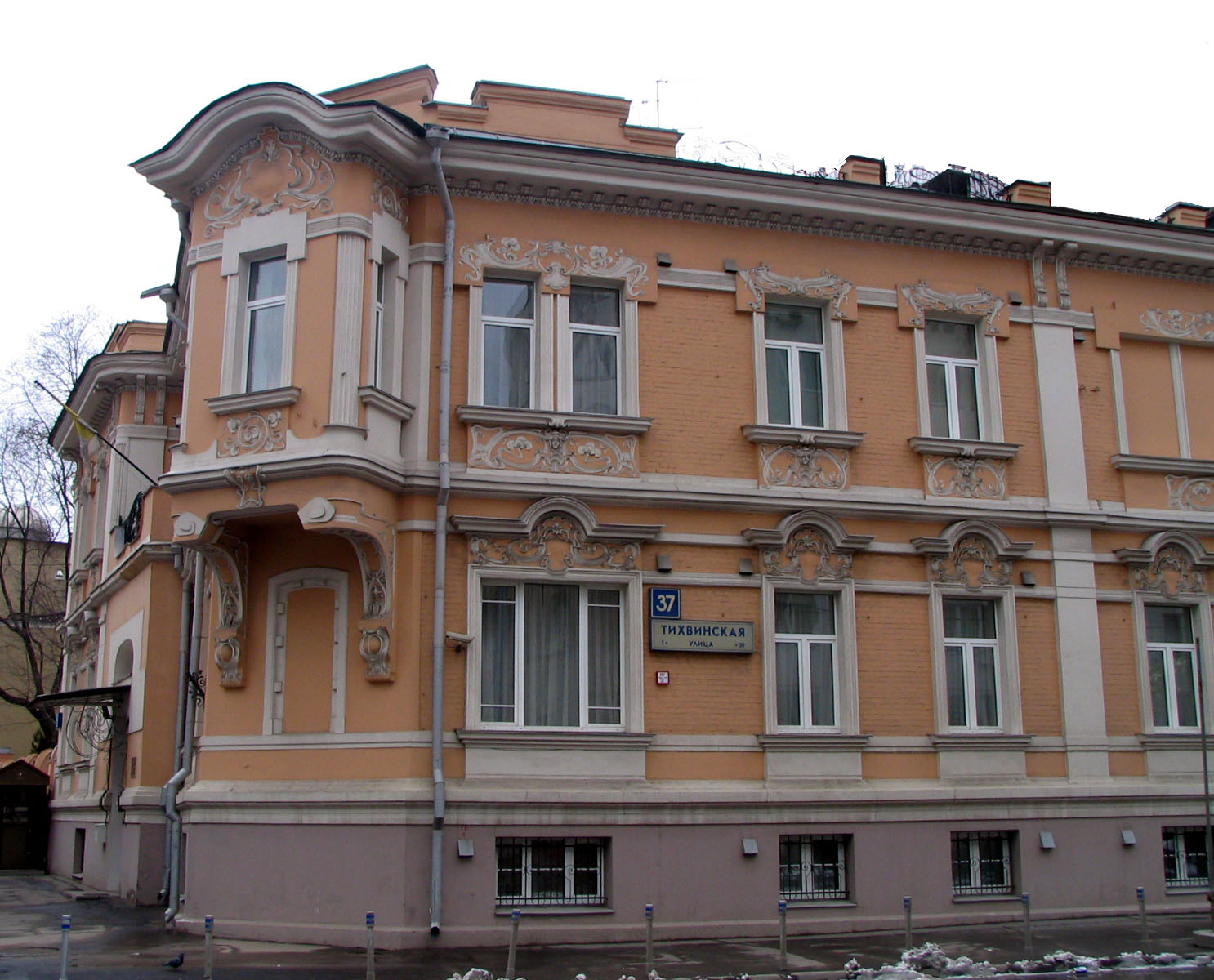 Tihvinskaya, 37. Moscow (Vadkovsky lane, 7/37). Embassy of Vatican - (Apostolic nunciature) in Russia.